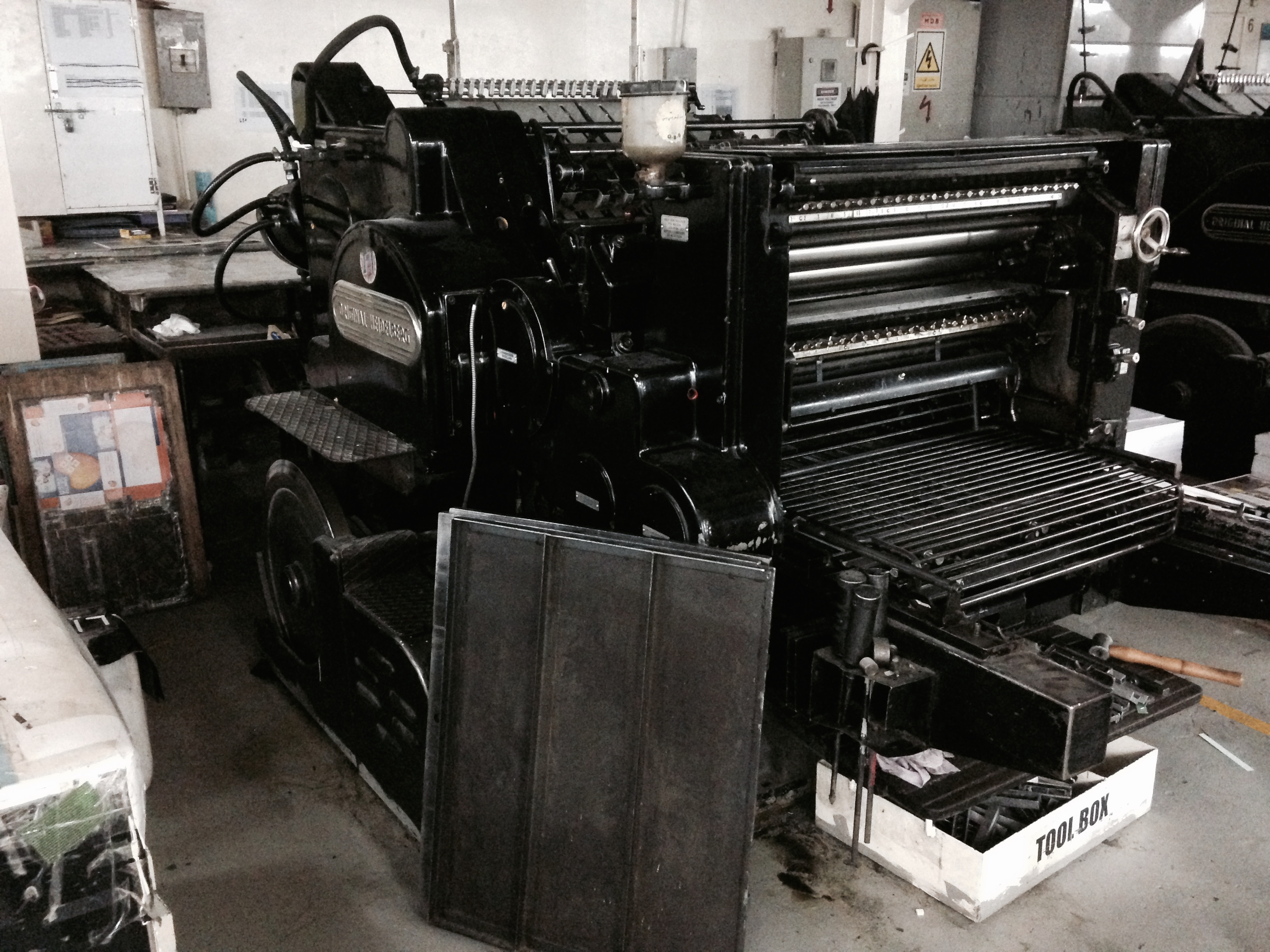 Original Heidelberg Cylinder, Printing Machine